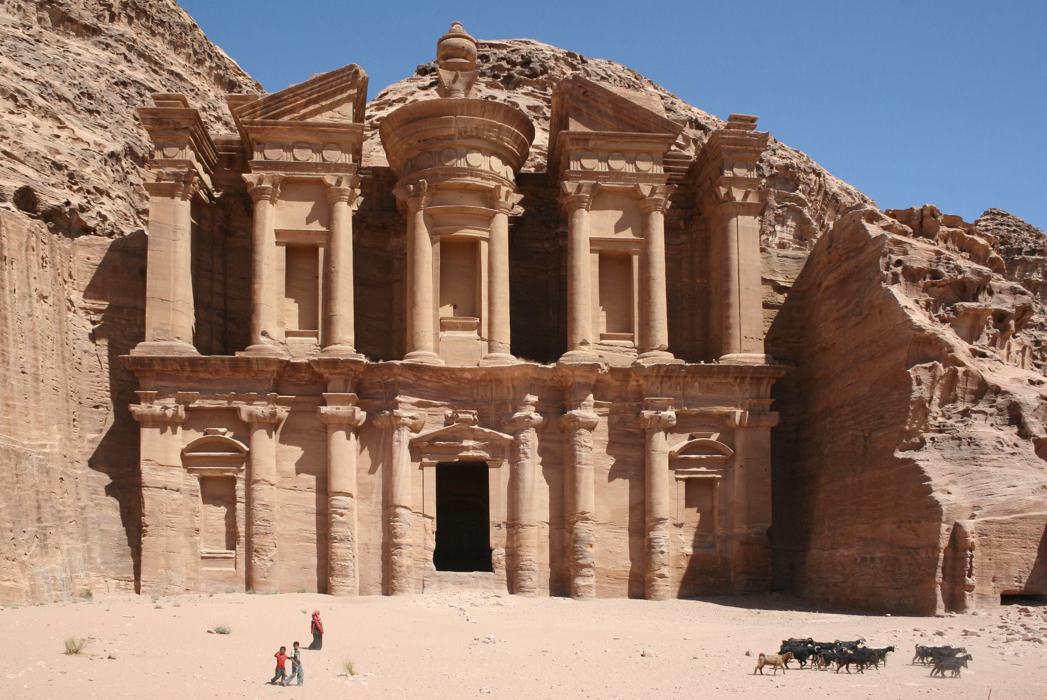 The Monastery, Petra, Jordan